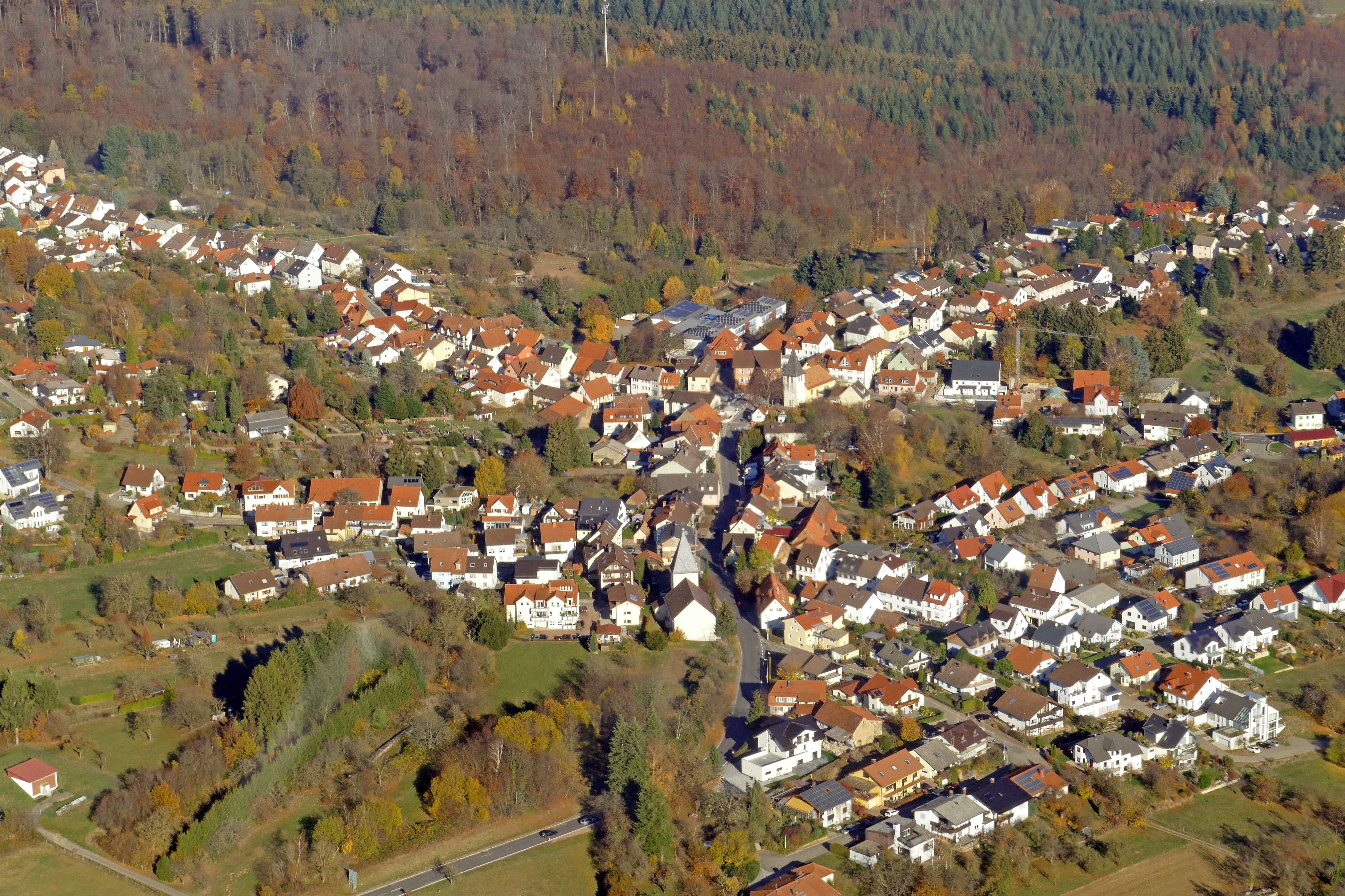 Town center of Gaiberg, photographed out of a gyrocopter. The view is from the west, the main entry road (country road L600) towards the centre of Gaiberg. In the middle foreground left of the street is the catholic church, in the middle right of the street the protestant church. In the middle left of the street, partly in the shadow of the church tower, is the town hall. On the left behind it are the school and its sports hall (the buildings with the numerous solar cells).